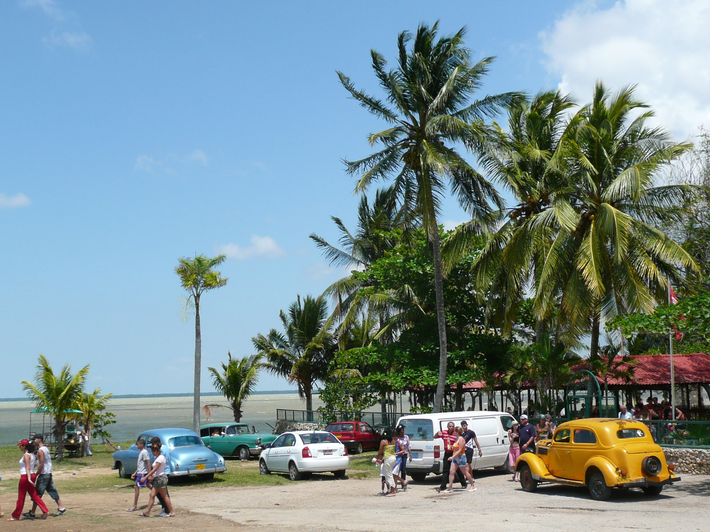 Cuba, lake 'Laguna de la Leche', touristic venue near Moron, Ciego de Avila